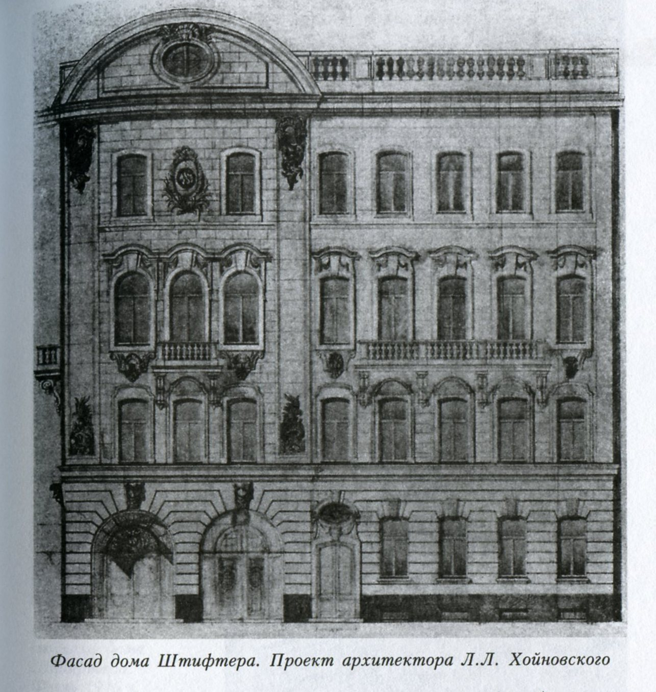 The project of the facade of the Stifter House in St Petersburg by Lyudomir Khoynovsky (Ludomir Chojnowski) (1880-1915)